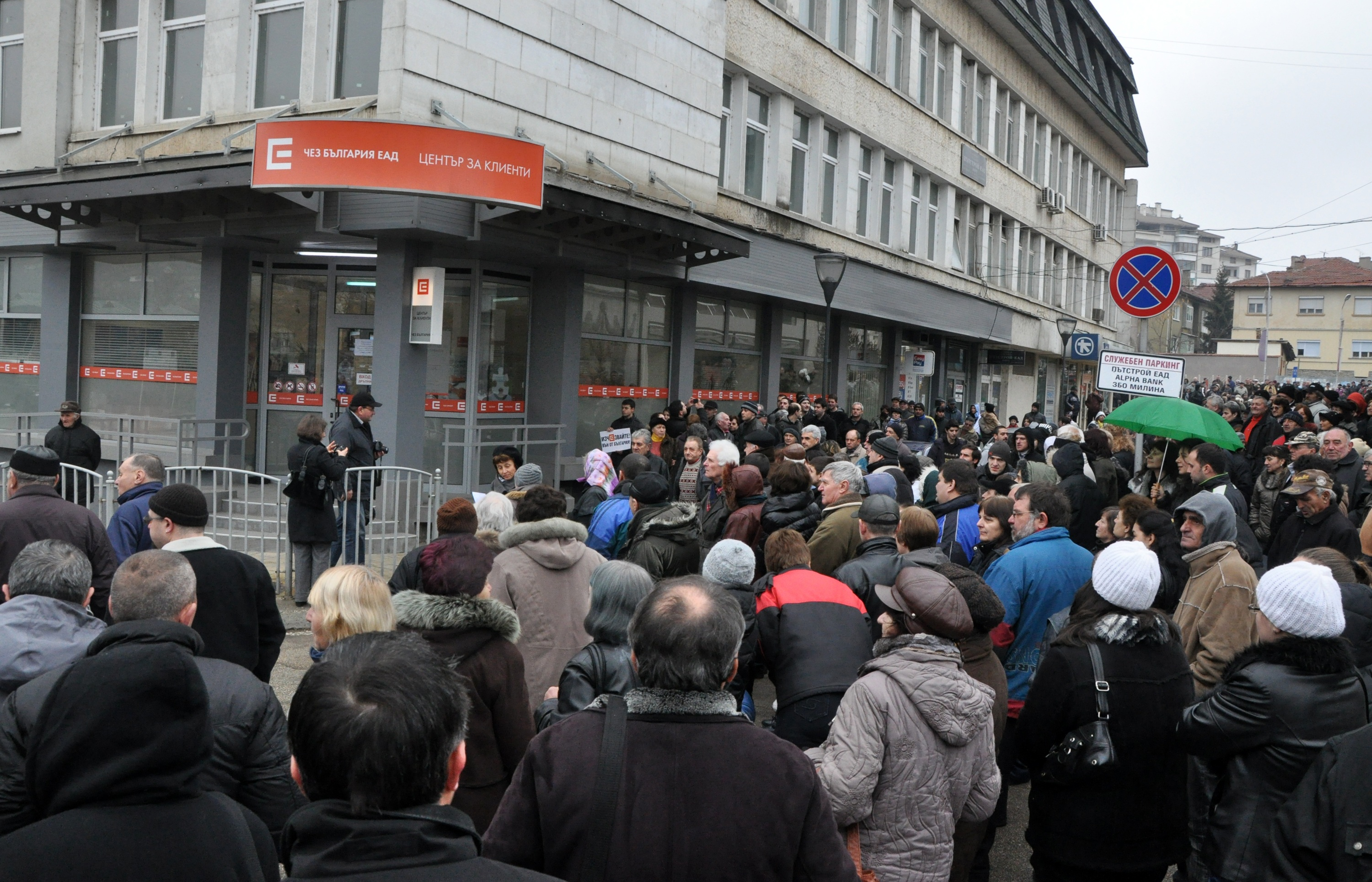 Protest against CEZ Bulgaria - 17 Feb 2013